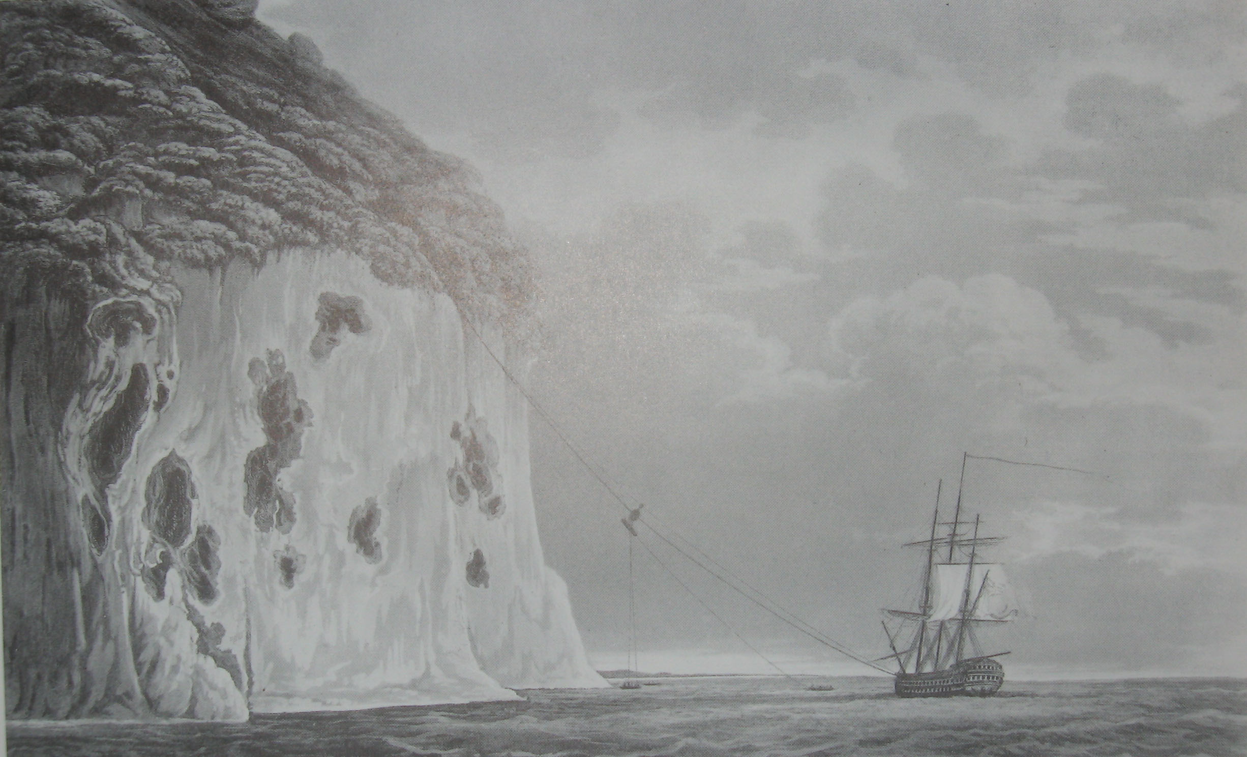 Picturesque views of the Diamond Rock... South-East view of the Diamond Rock with the Cannon being hauled up from the Centaur by the Cable. Coloured aquatint and etching, published by Joseph Constantine Stadler after an original by John Eckstein, 1 January 1805.